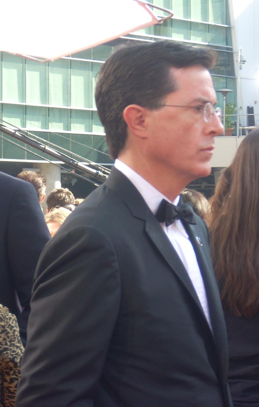 Stephen Colbert at 2008 Emmy Awards.